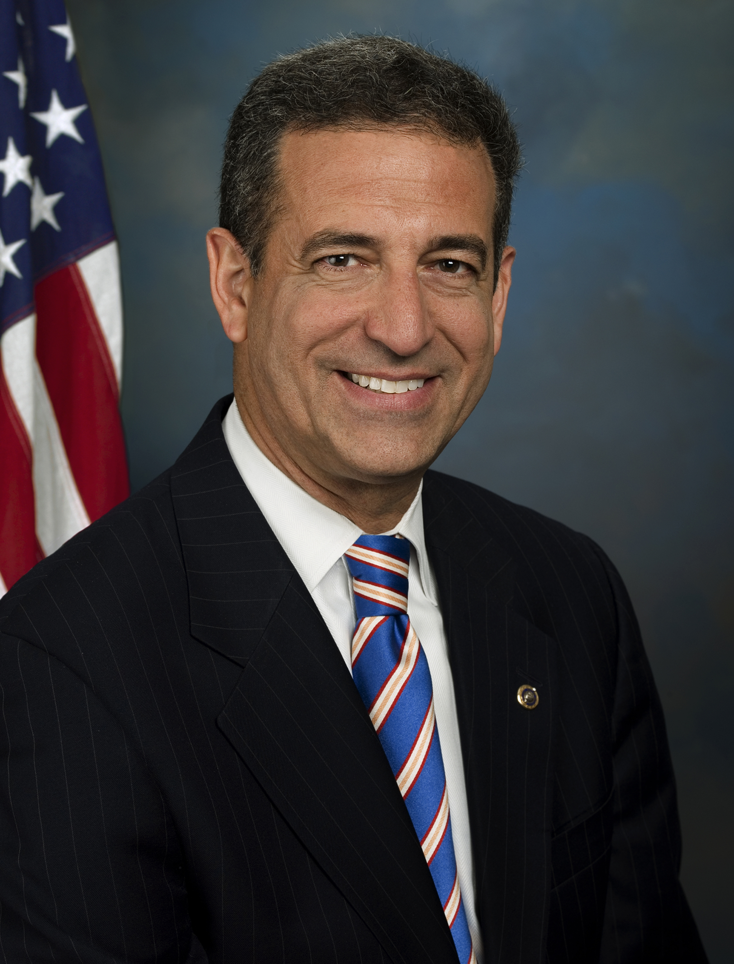 Russ Feingold, U.S. Senator from Wisconsin.